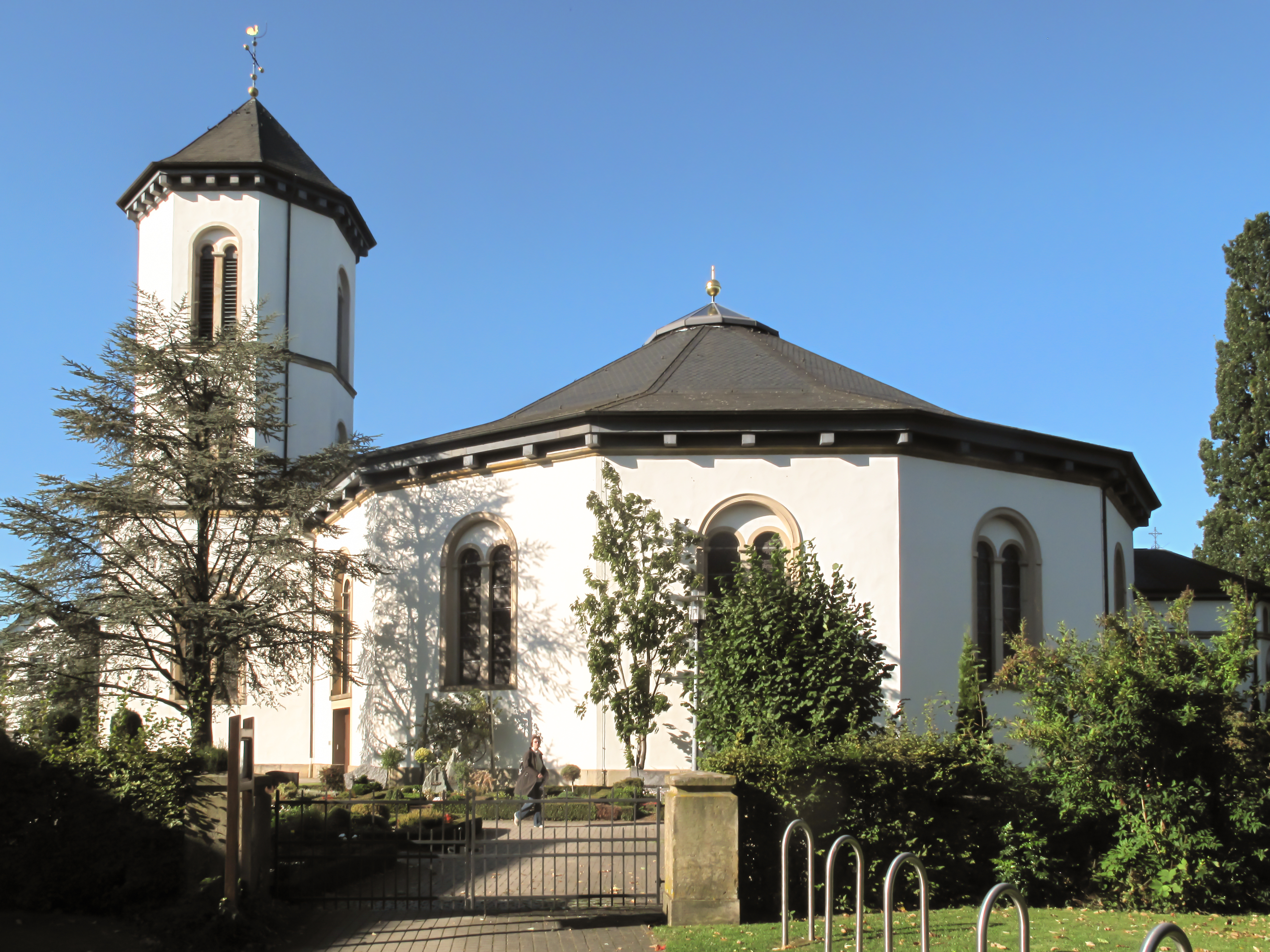 Gesmold, church: die Sankt Petruskirche